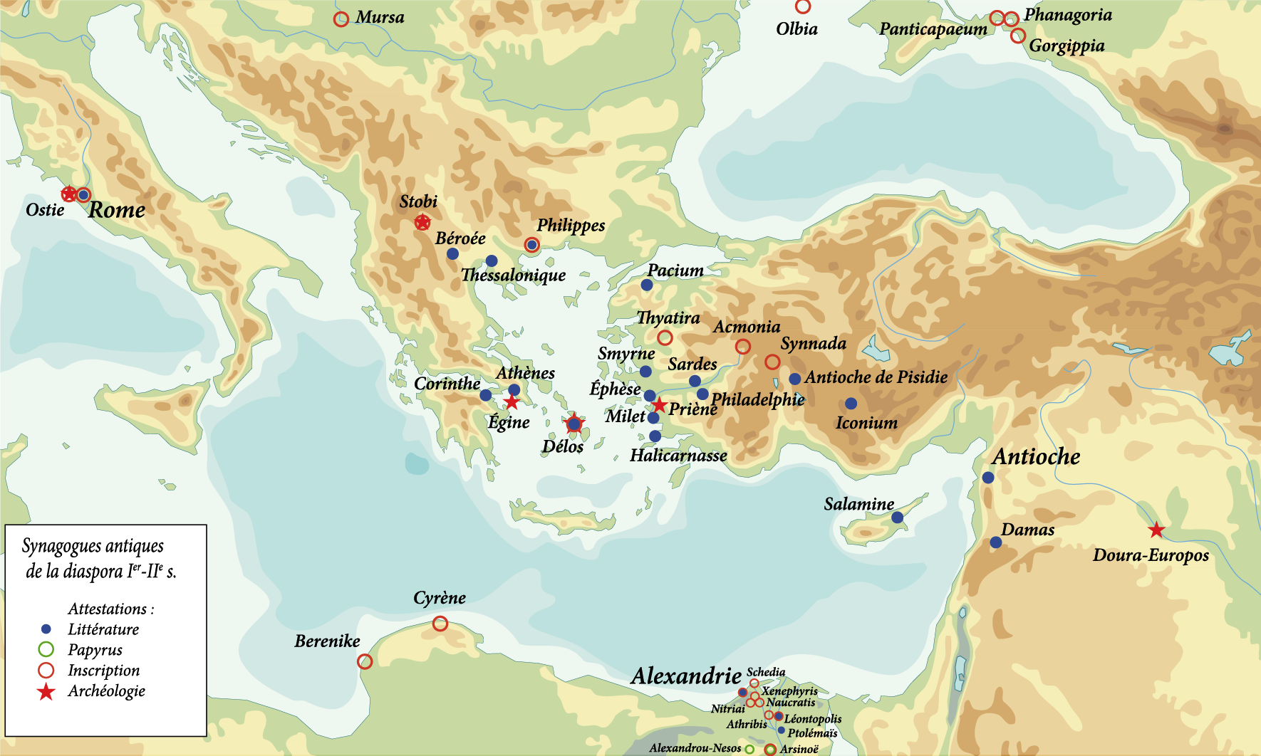 Map of the Ist-IInd c. AD synagogues in the Mediterranean world.